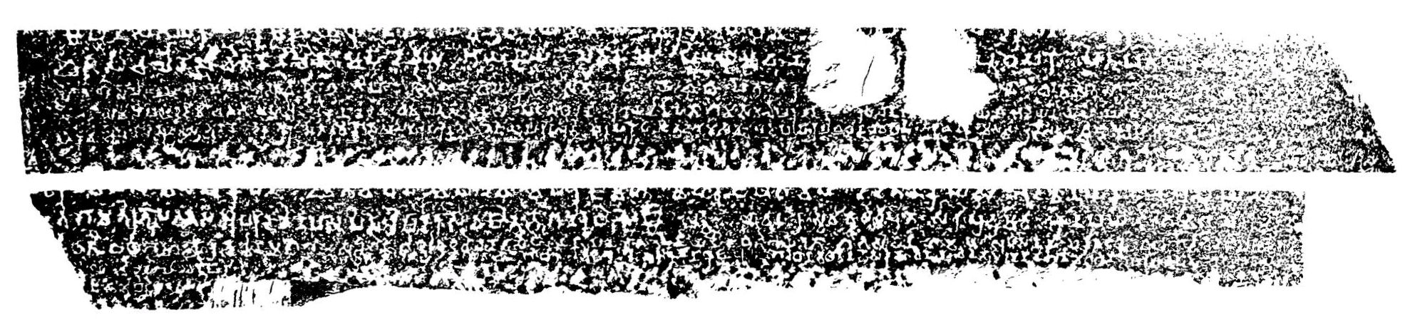 Nasik inscription No3, Cave No3